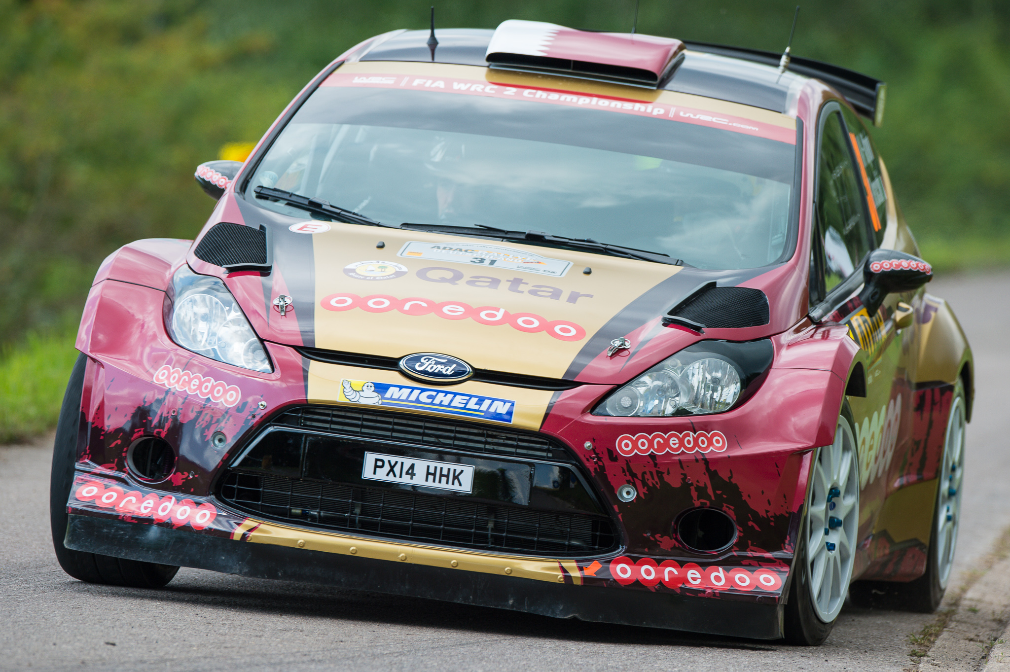 ADAC Rallye Deutschland 2014,FIA,FIA World Rally Championship,Ford Fiesta RRC,Giovanni Bernacchini,Motorsport,Nasser Al-Attiyah,Rally,Rallye,Shakedown,WRC 2